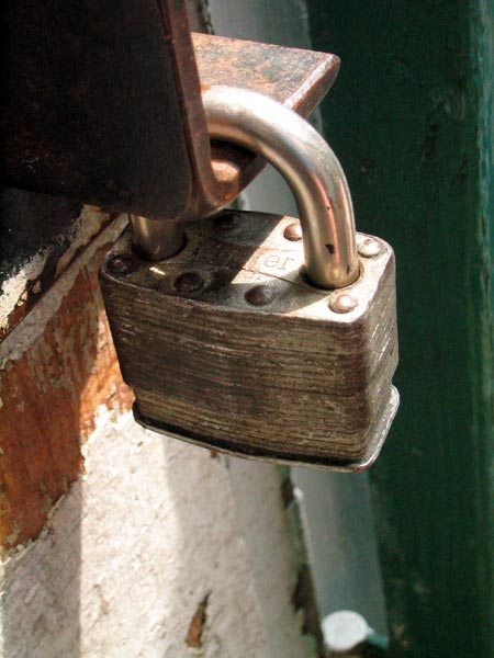 Padlock in a doorway at Eastern Market in Washington, D.C.